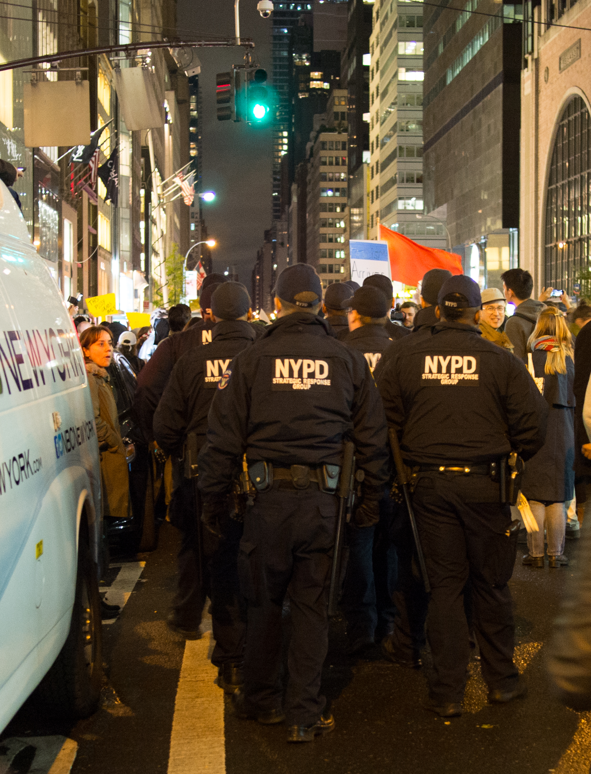 A large protest in Manhattan against the presidency of Donald Trump on November 9, 2016, the day after election day. The crowd spanned a few blocks, centered on Trump Tower.